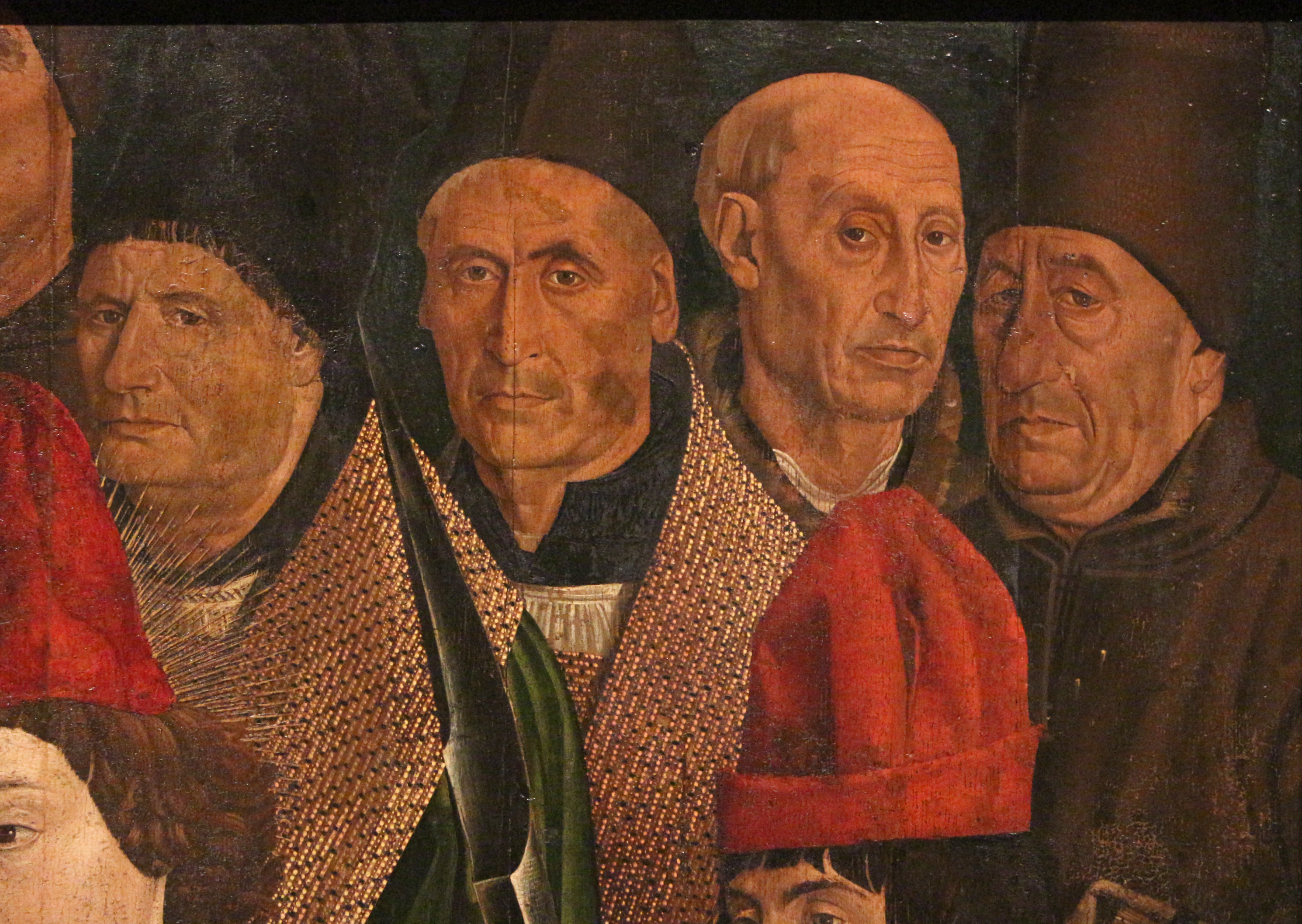 Saint Vincent Panels